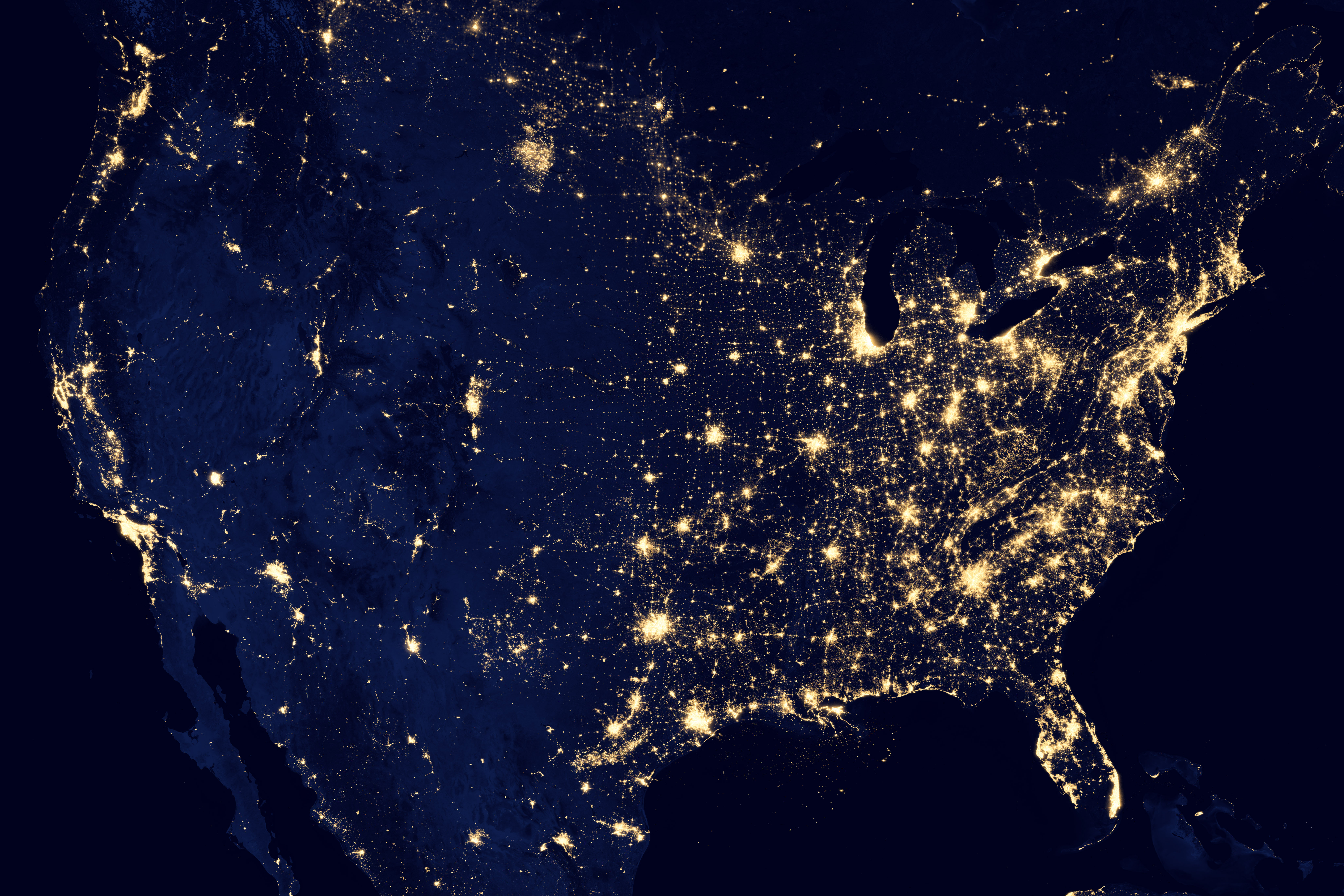 NASA image acquired April 18 - October 23, 2012 This image of the United States of America at night is a composite assembled from data acquired by the Suomi NPP satellite in April and October 2012. The image was made possible by the new satellite’s “day-night band” of the Visible Infrared Imaging Radiometer Suite (VIIRS), which detects light in a range of wavelengths from green to near-infrared and uses filtering techniques to observe dim signals such as city lights, gas flares, auroras, wildfires, and reflected moonlight. Instrument: Suomi NPP - VIIRS Projection: Albers equal-area conic, WGS84 datum, standard parallels 29.5°N and 44.5°N, central meridian 96°W, origin latitude 23°N On this image one pixel is (737.19 × 737.19)m²